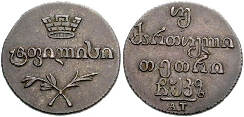 Abazi. Under the authority of Nicholas I. 1825-1855. AR 2 Abazi (23mm, 6.24 g, 7h). Tiflis (Tiblisi) mint. Dated 1827 A T (Alexander Trifinov, mintmaster). Crown/legend/crossed branches / Three lines of legend, date and A•T below. KM 75. VF, toned.